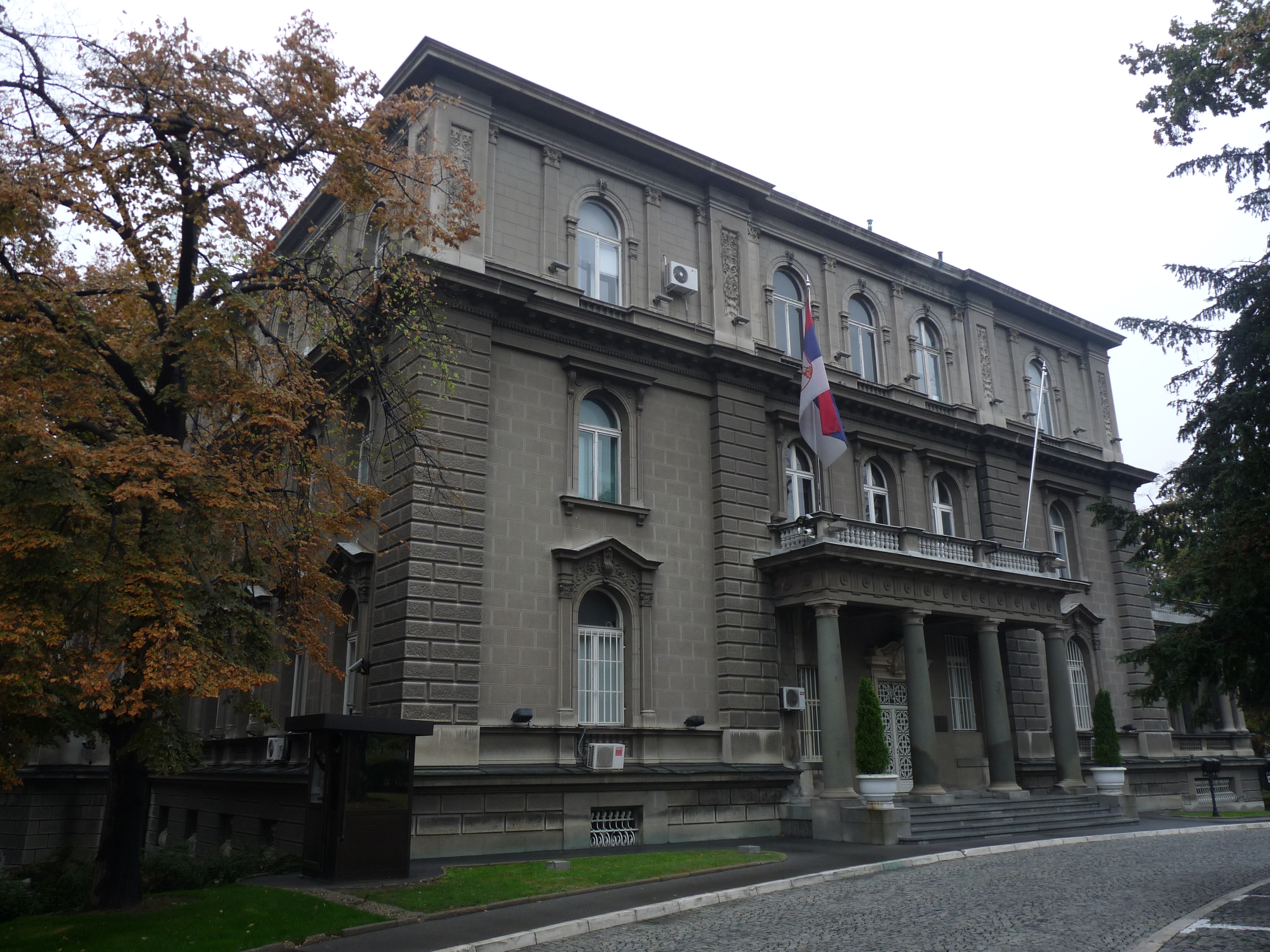 Serbian presidential residence in Beograd, October 13, 2012